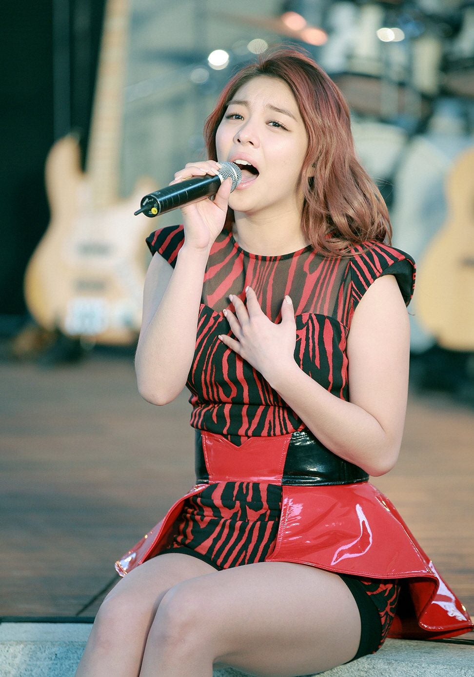 Ailee (South Korean singer) on Oct 11, 2013